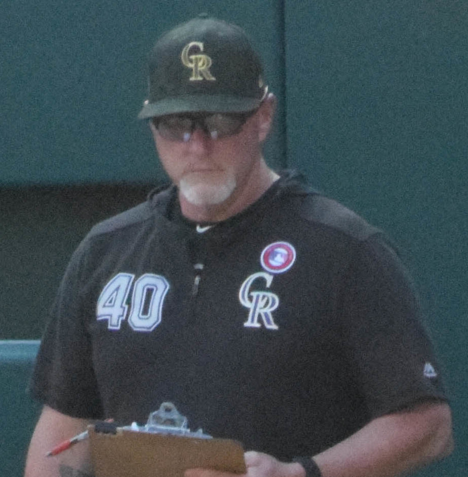 Seung-hwan Oh of the Colorado Rockies warms up in the bullpen at Citizens Bank Park during a 2019 game in Philadelphia.